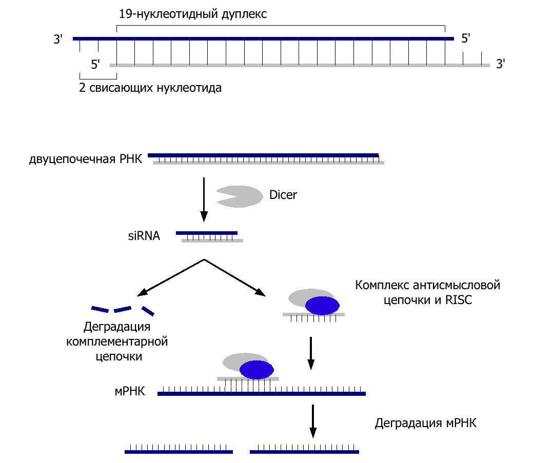 A. structure of siRNA, B. mechanism of RNA-interference